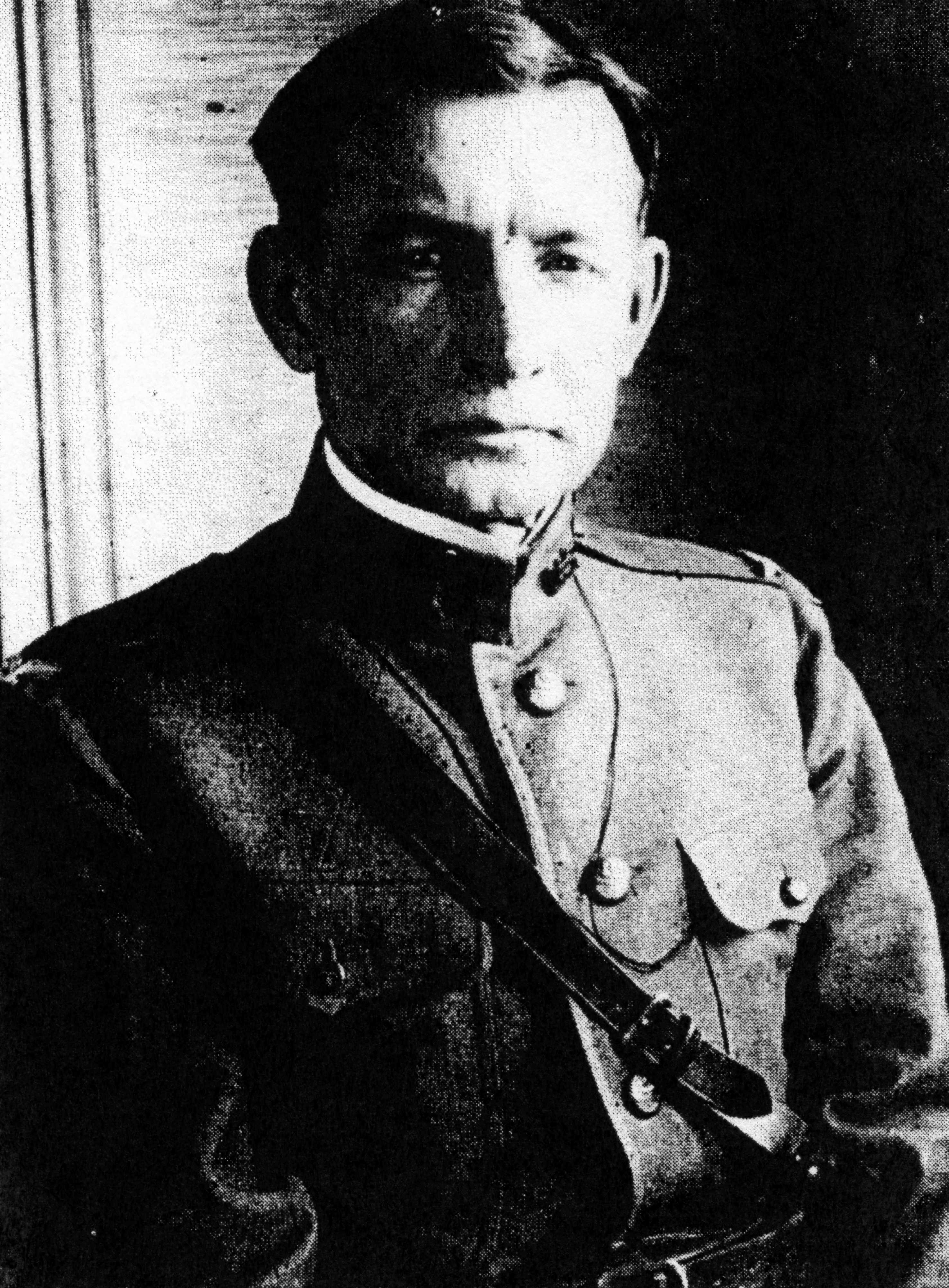 Brigadier General Charles Dawes during World War I. He served with the American Expeditionary Force as chief of supply procurement and was a member of the Liquidation Commission, United States War Department. Later, he was the 30th Vice President of the United States.